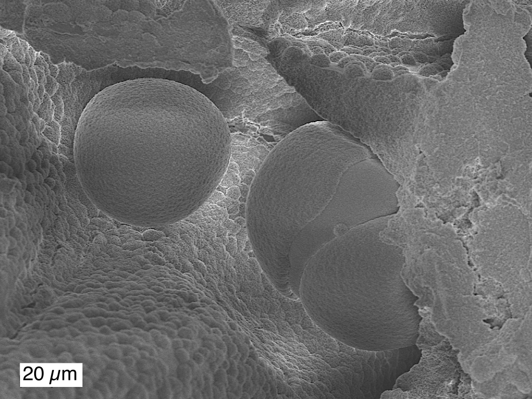 Impact feature: Shock-melted glass from the Rubielos de la Cérida impact structure under the scanning electron microscopebielos de la Cérida impact structure sem glass